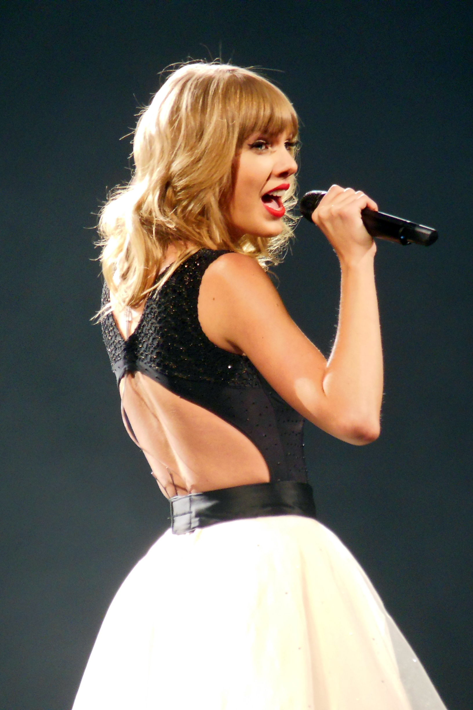 Taylor Swift during the Red Tour, March 2013